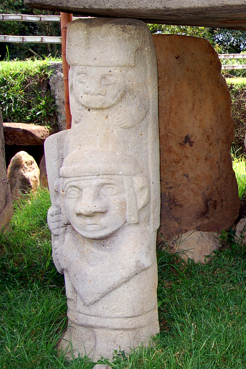 Tomb with deity. Warriers with alter ego serve as pillars for the tomb